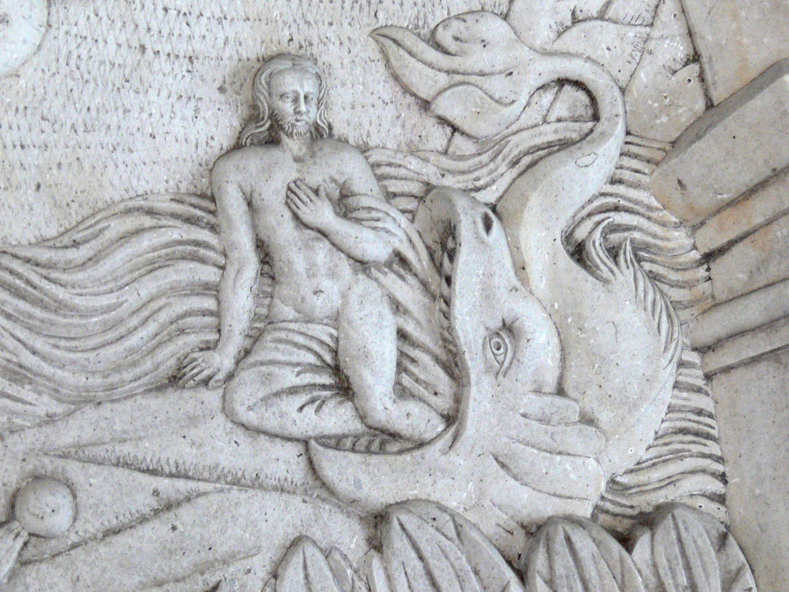 Sarleinsbach ( Upper Austria ). Saint Peter parish church: Epitaph ( 1595 ) for Johann of Sprinzenstein and his wife Anne countess Lynar - Christ is vanquishing devil and death - detail: Christ as new Jonah.